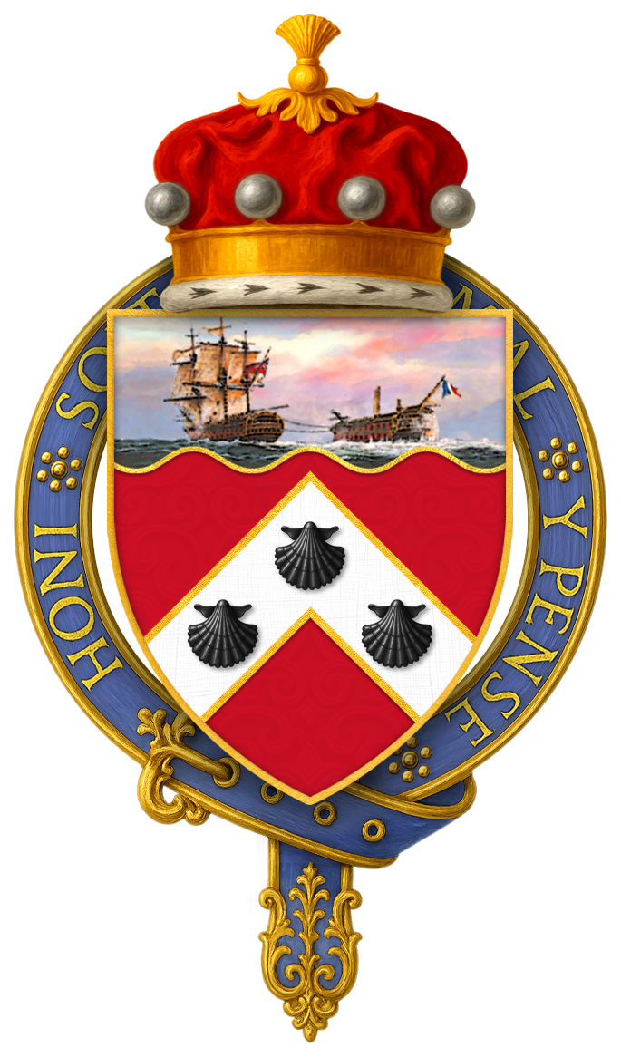 Garter-encircled shield of arms of Charles Hardinge, 1st Baron Hardinge of Penshurst, KG, as displayed on his Order of the Garter stall plate in St. George's Chapel.